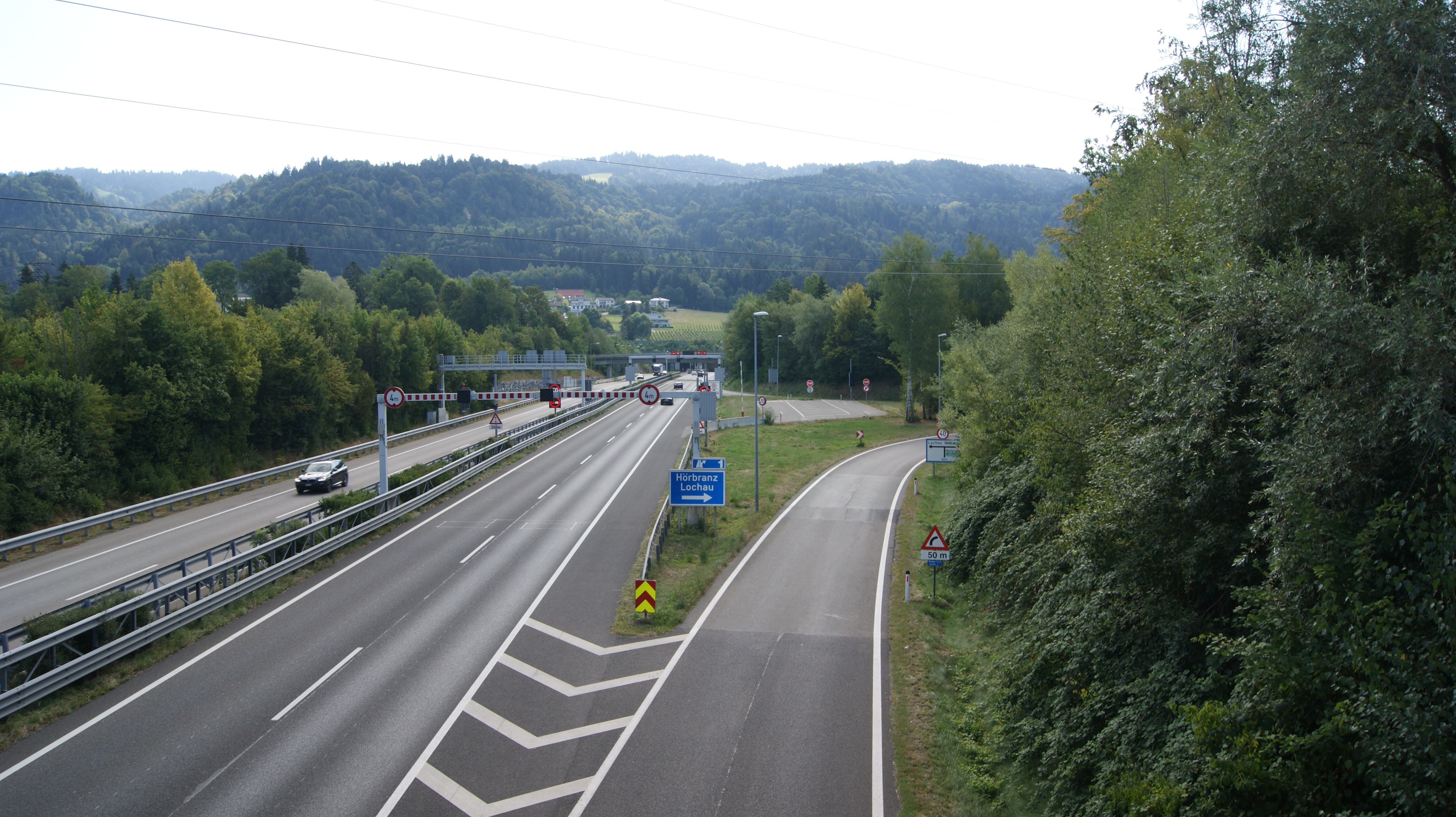 View from the overpass "Allgäustraße" over the A14 (Rheintalautobahn) in the area of the community Hörbranz in Vorarlberg, Austria. View of the A14, driving direction Bregenz and the eastern portal of the Pfänder tunnel. On the right, the inspection body of ASFINAG.